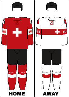 The home and away jerseys of the Swiss national ice hockey team used from the 2014 IIHF World Championship.